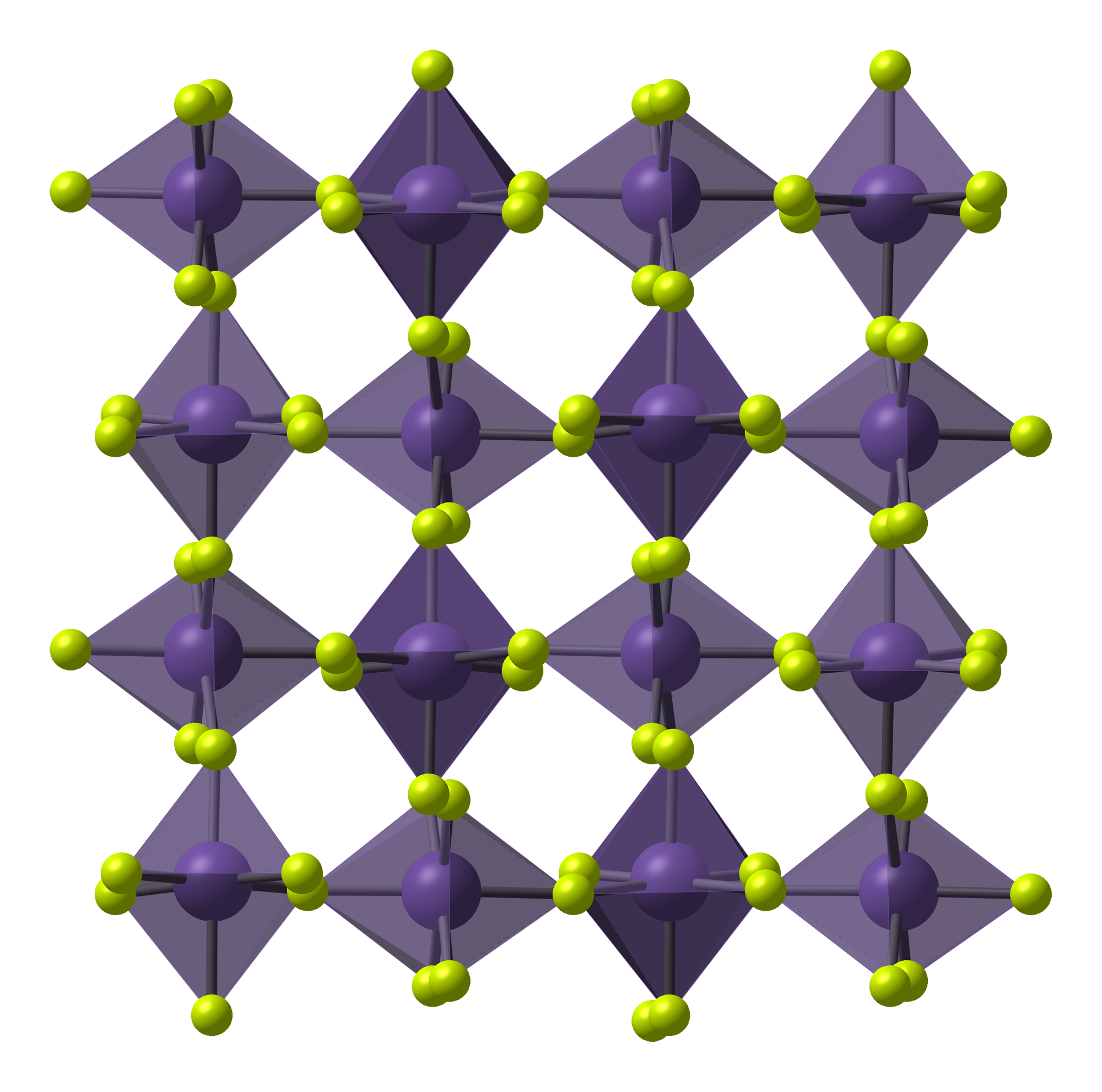 Polyhedral model of the unit cell of the crystal structure of α-manganese(IV) fluoride, MnF4. Colour code: Manganese, Mn: light purple Fluorine, F: yellow-green Structure determined by X-ray crystallography, reported in Z. Naturforsch. B (1987) 42, 1102–1106 (ICSD 62069). Model manipulated and image generated in CrystalMaker 8.6.